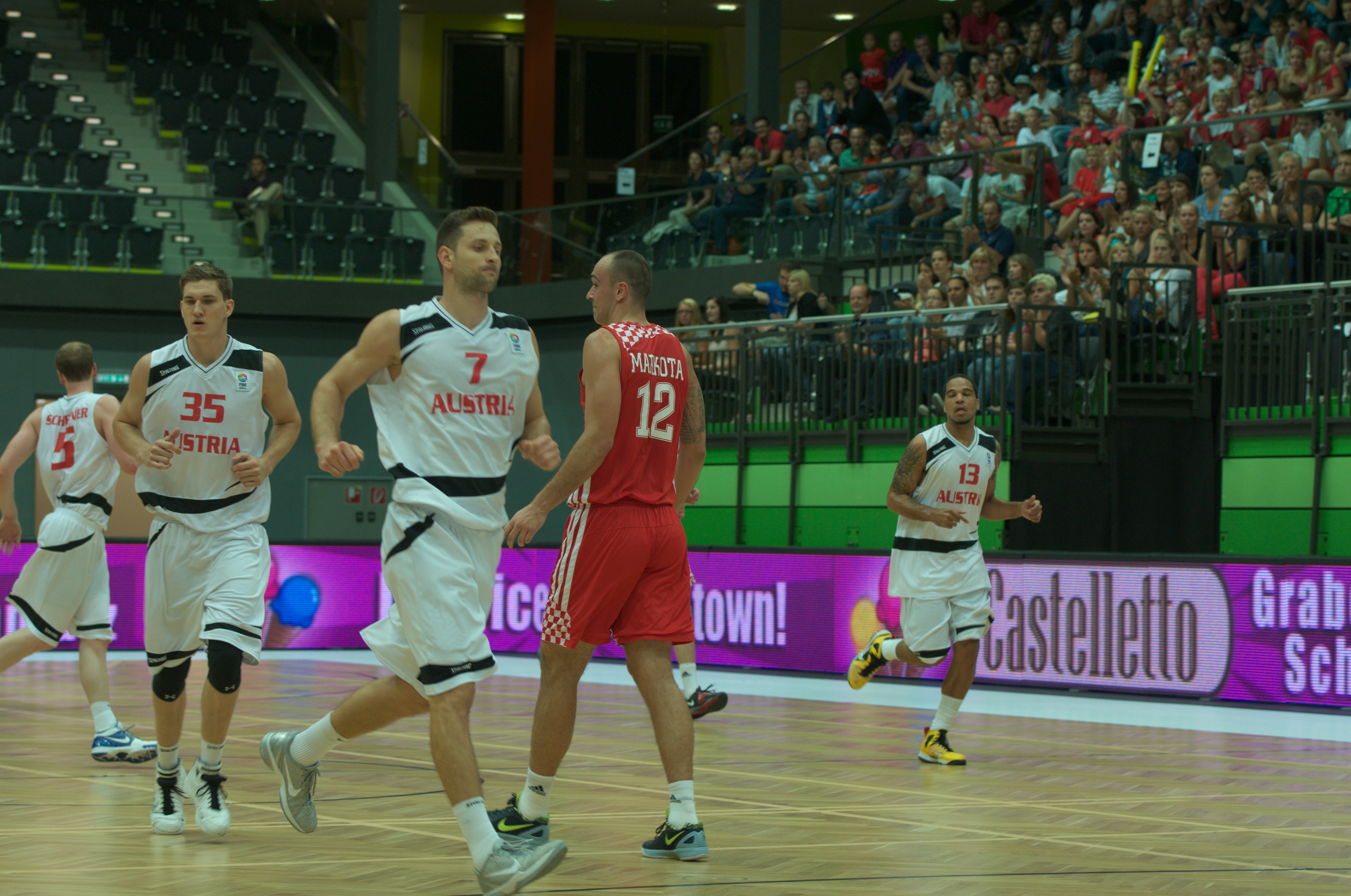 Austria national basketball team versus Croatia in 2012.